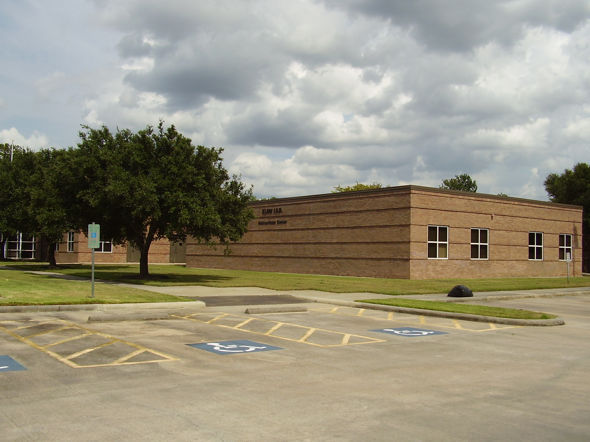 Klein ISD Instructional Center